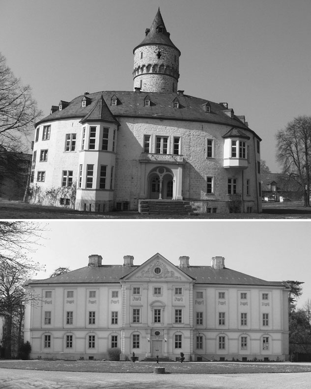 Von Cramm had come from far greater opulence even than the wealthy Tilden. Schloss Oelber (top) was the von Cramm summer estate. As a boy Gottfried lived most of the year in Schloss Brüggen (bottom).